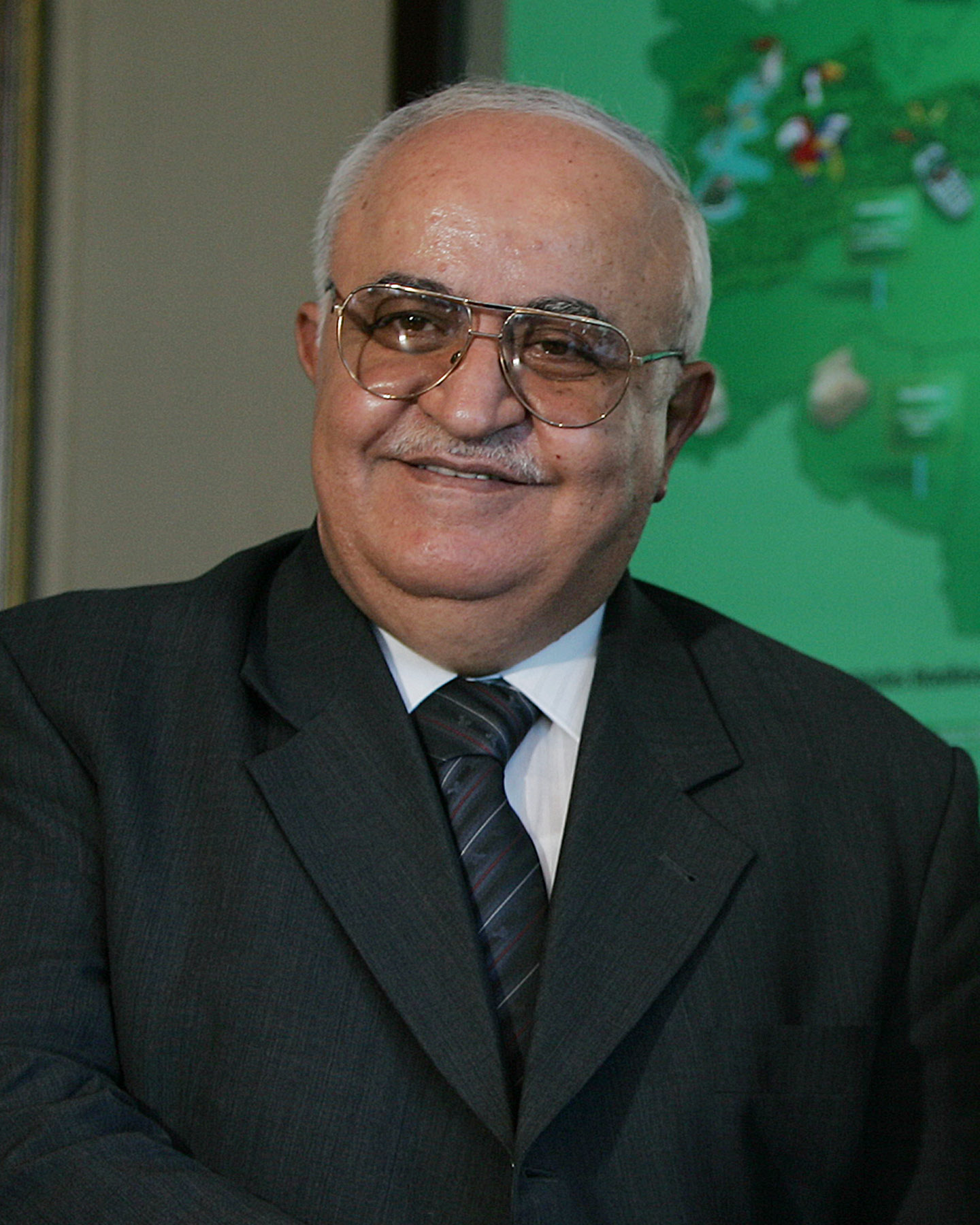 May 2005, ARAB League and SOUTH AFRICA Summit